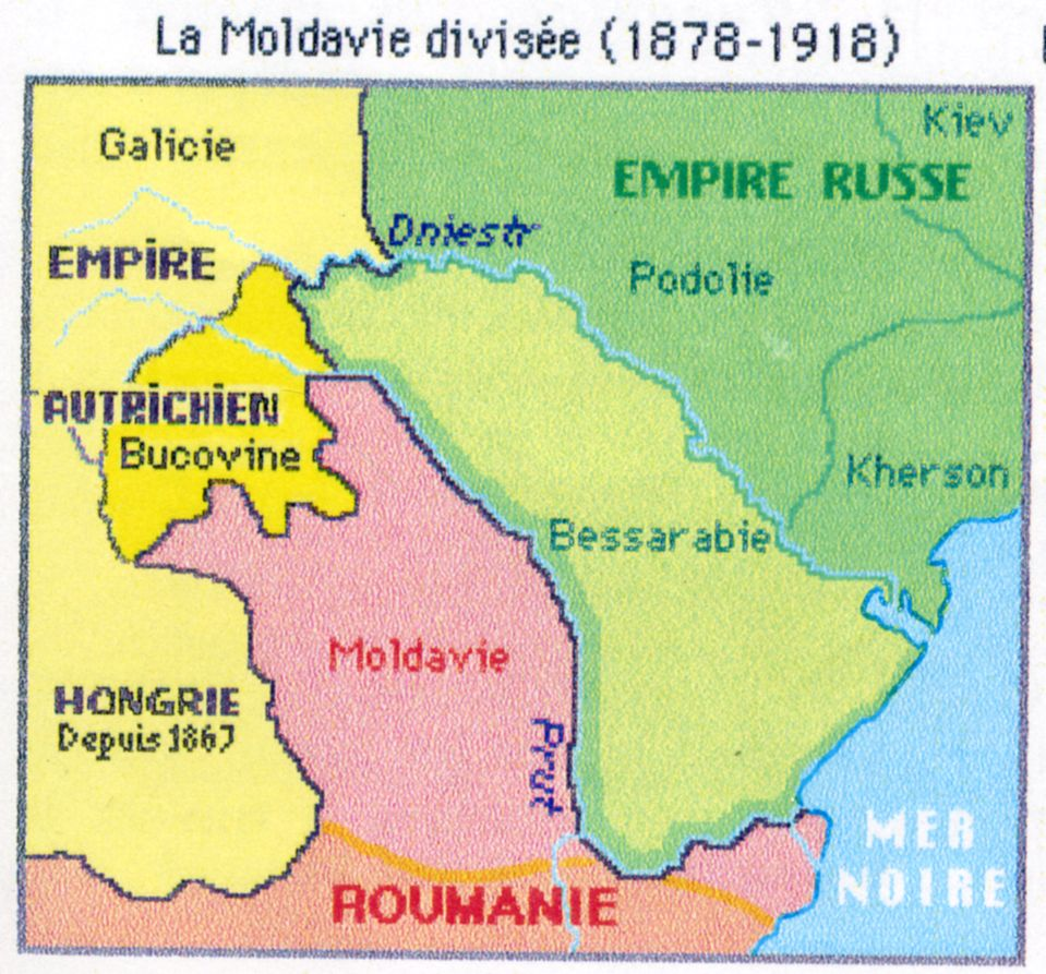 Map of Moldova/Moldavia 1878-1918